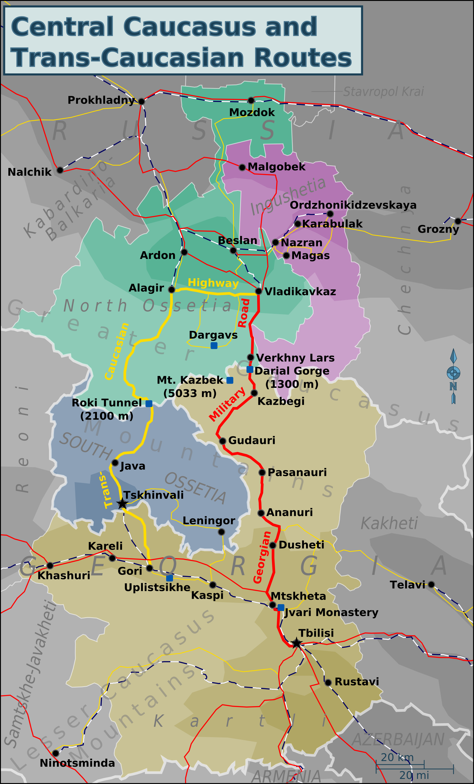 Map of Ingushetia, North & South Ossetia and Kartli regions for use on Wikivoyage. SVG source File:Central Caucasus.svg Based on maps from